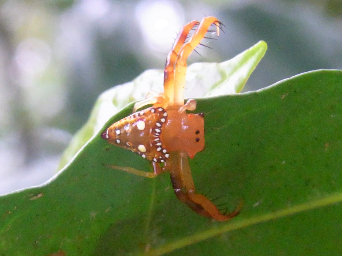 Flint & Steel track, Ku-ring-gai Chase National Park, Australia. Leaf is Synoum glandulosum, spider probably Arkys lancearius